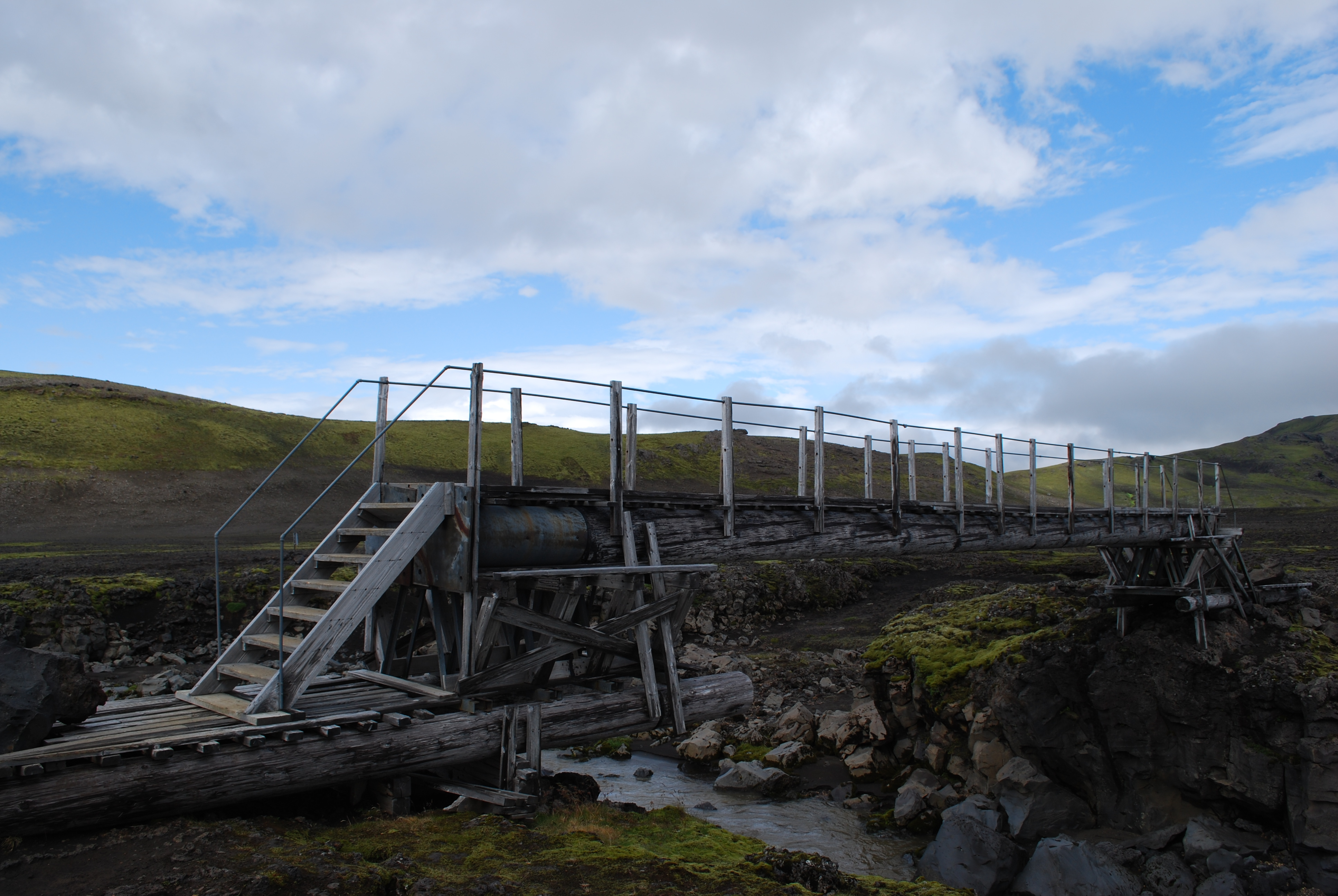 Bridge over Kaldaklofskvísl River imaged during Laugavegur, Iceland